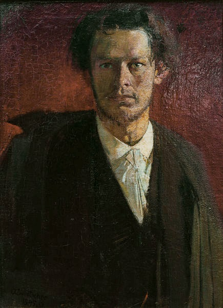 Selbstbildniss